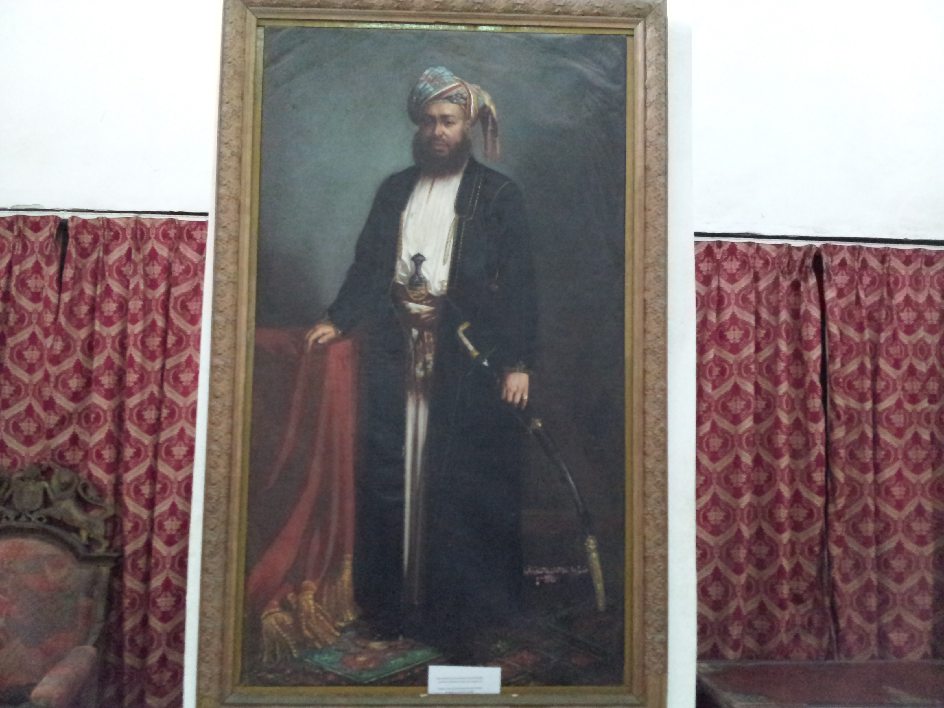 This is a portrait of one of the Omani Sultans of Zanzibar. It is found hanging in the "House of Wonders" in Zanzibar's Old Stone Town.